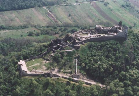 Szigliget - castle, Hungary, aerialphotography